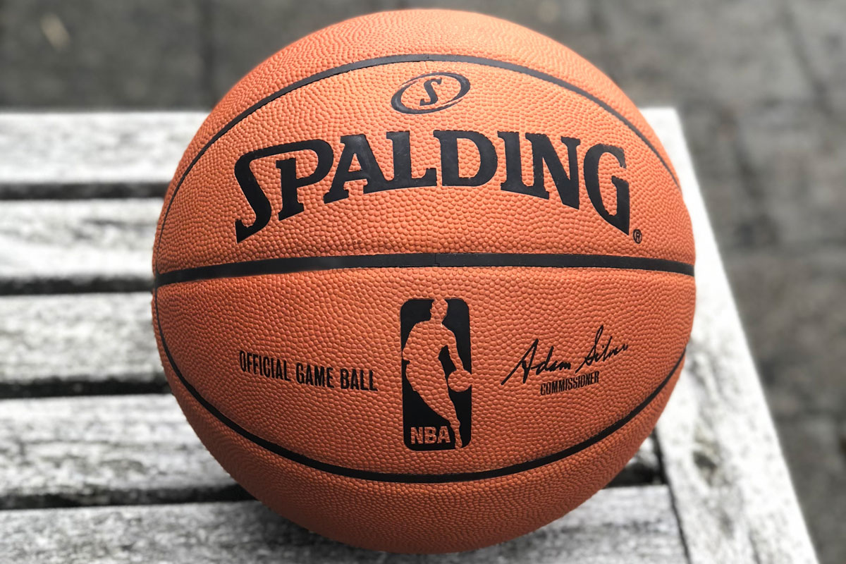 Spalding NBA game ball leather